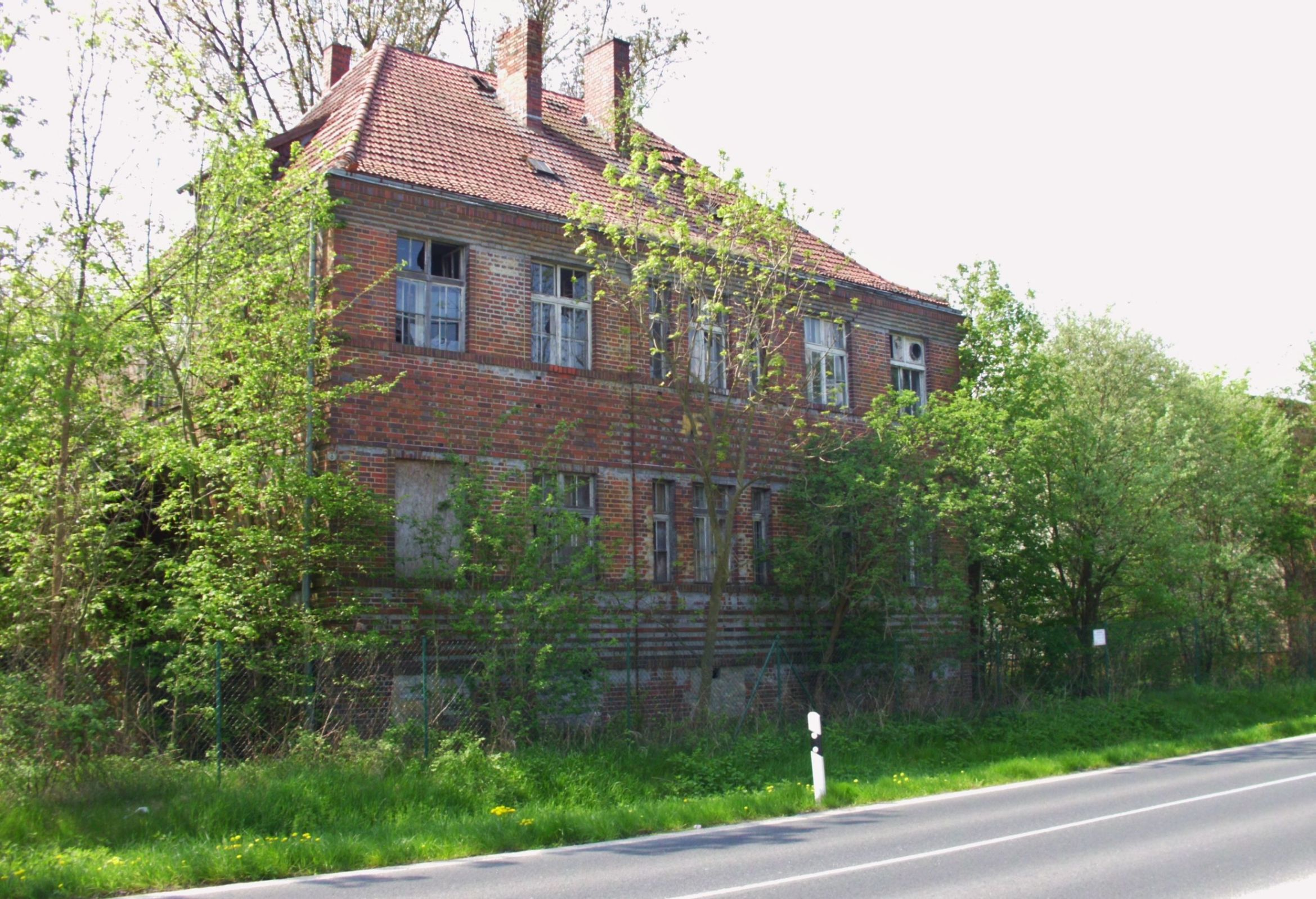 Küstrin-Kietz Oderinsel barracks